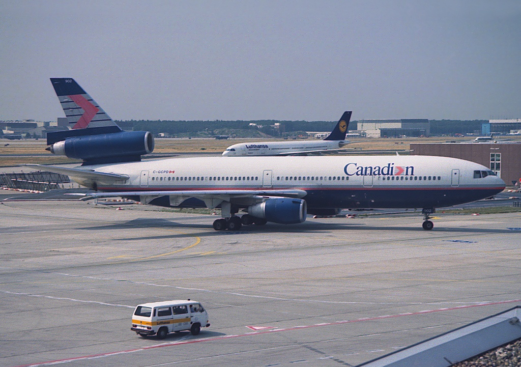 Canadian Airlines McDonnell Douglas DC-10-30 C-GCPD at Frankfurt International Airport